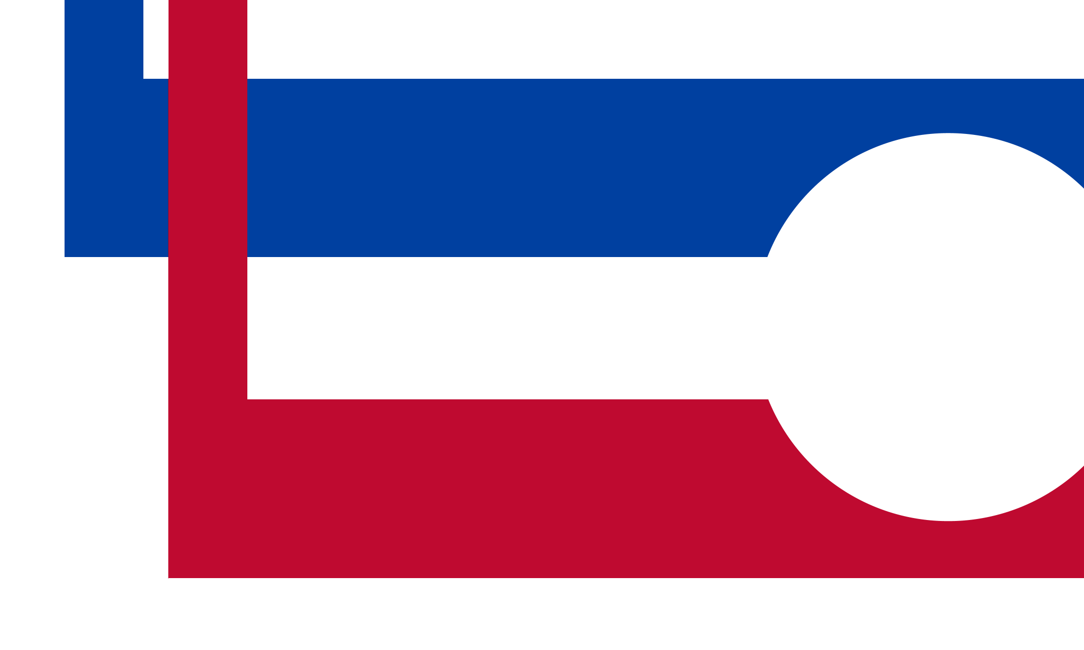 Flag of Longmont, Colorado. Adopted April 1, 1975. Designed by Glenn Troester